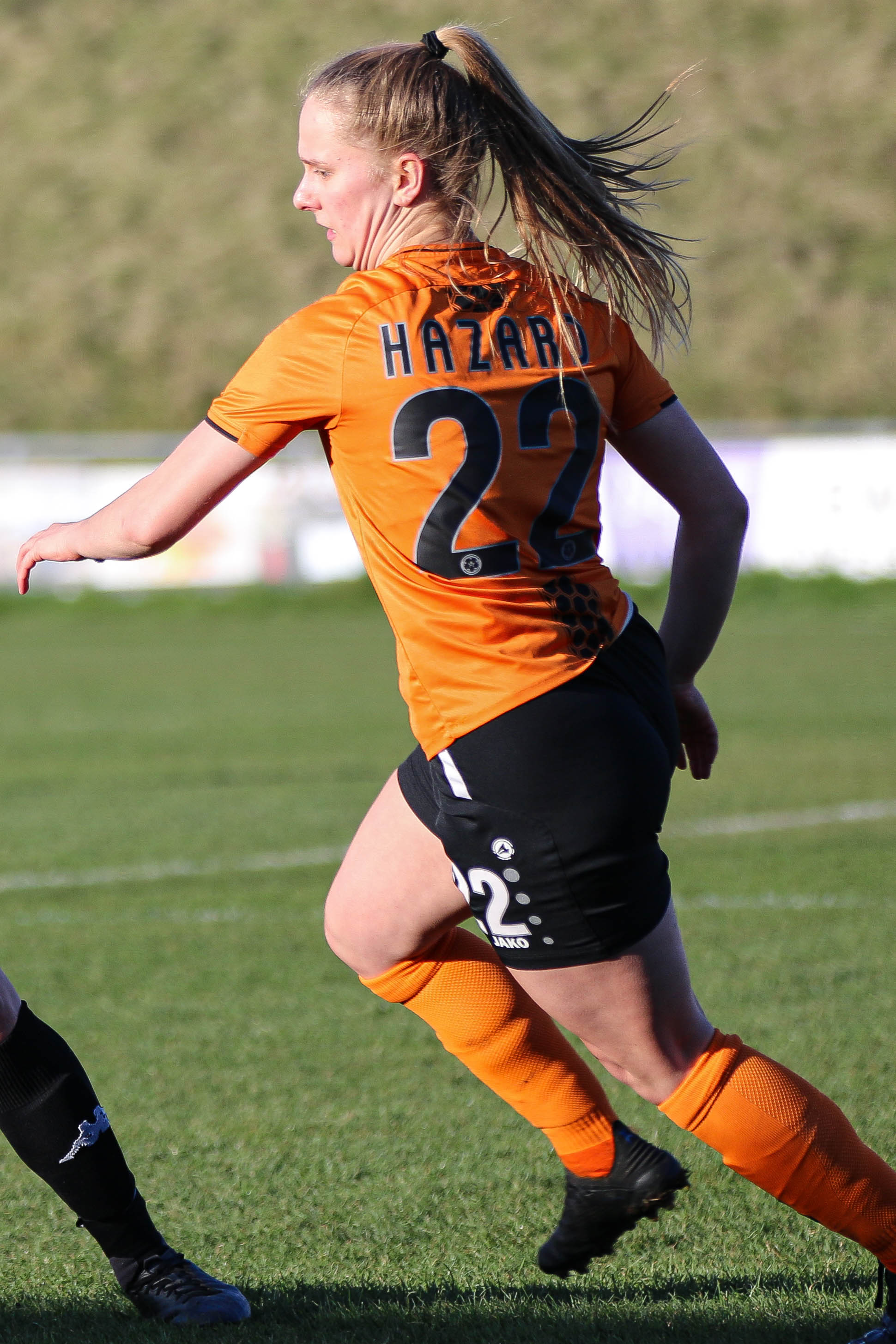 Amelia Hazard of London Bees